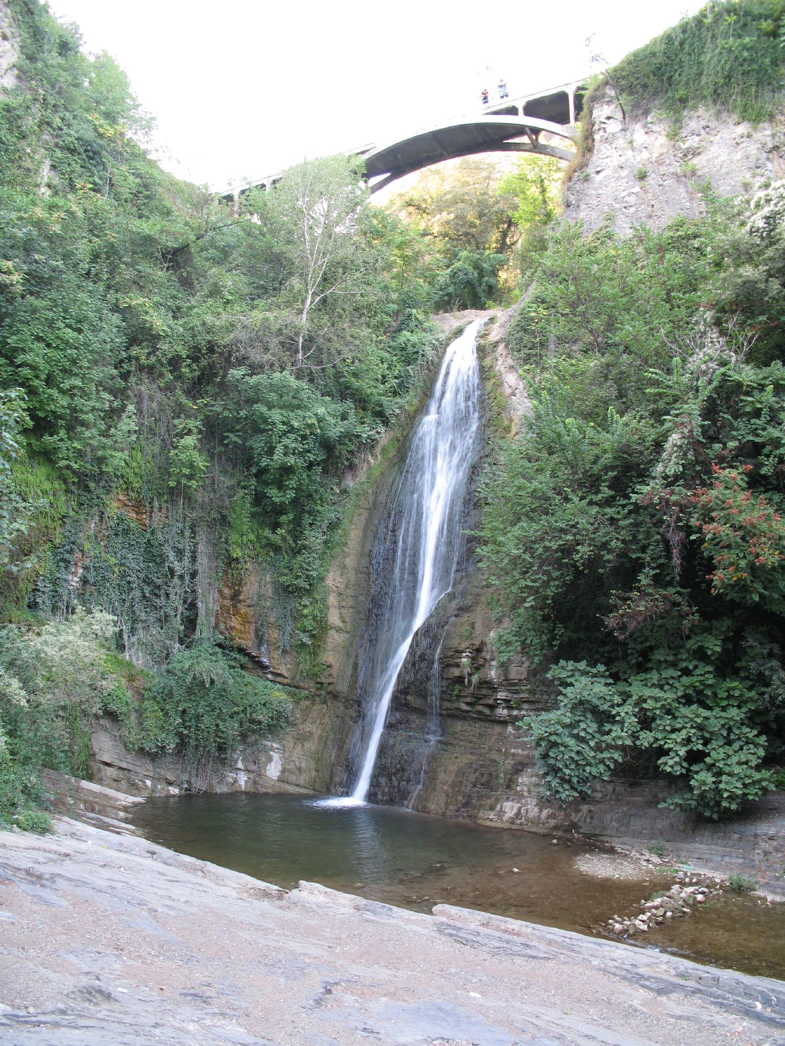 Tbilisi Botanical Garden